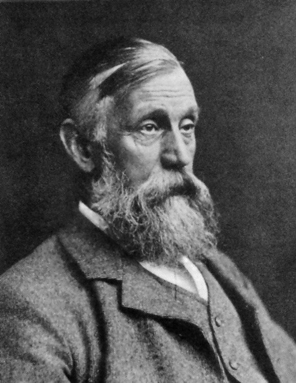 Sir Michael Foster (pre-1907 photograph)